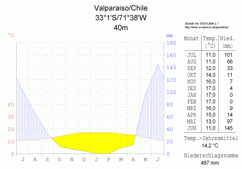 climate chart in the format by Walther and Lieth, metric, °Celsisus and millimeters, made with Geoklima 2.1